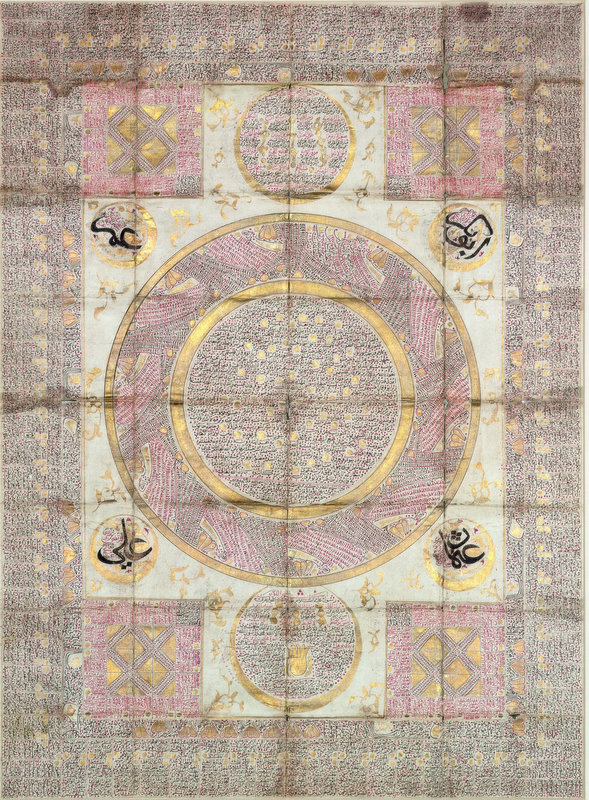 Hilye, signed by the calligrapher al-Haj Musa (dates unknown) Istanbul, 1712. Original ink and gold on paper, backed with green silk. 46 x 34.1 cm. The Nasser D. Khalili Collection of Islamic Art. This hilye was designed to be folded and carried in a container on one's person. The crease lines are visible. The two crescents above and below the large circle in the middle contain the description of the Prophet Muhammad. The central circle describes the protective powers of the hilye. The description is supposed to have been written for Mustafa ibn Ibrahim, son of Fatimah, and grandson of Muhammad. The protective hand of Patimah is also drawn on the lower crescent, as another sign against evil. The circle and the edges of the sheet are bordered with Kor'anic verses.